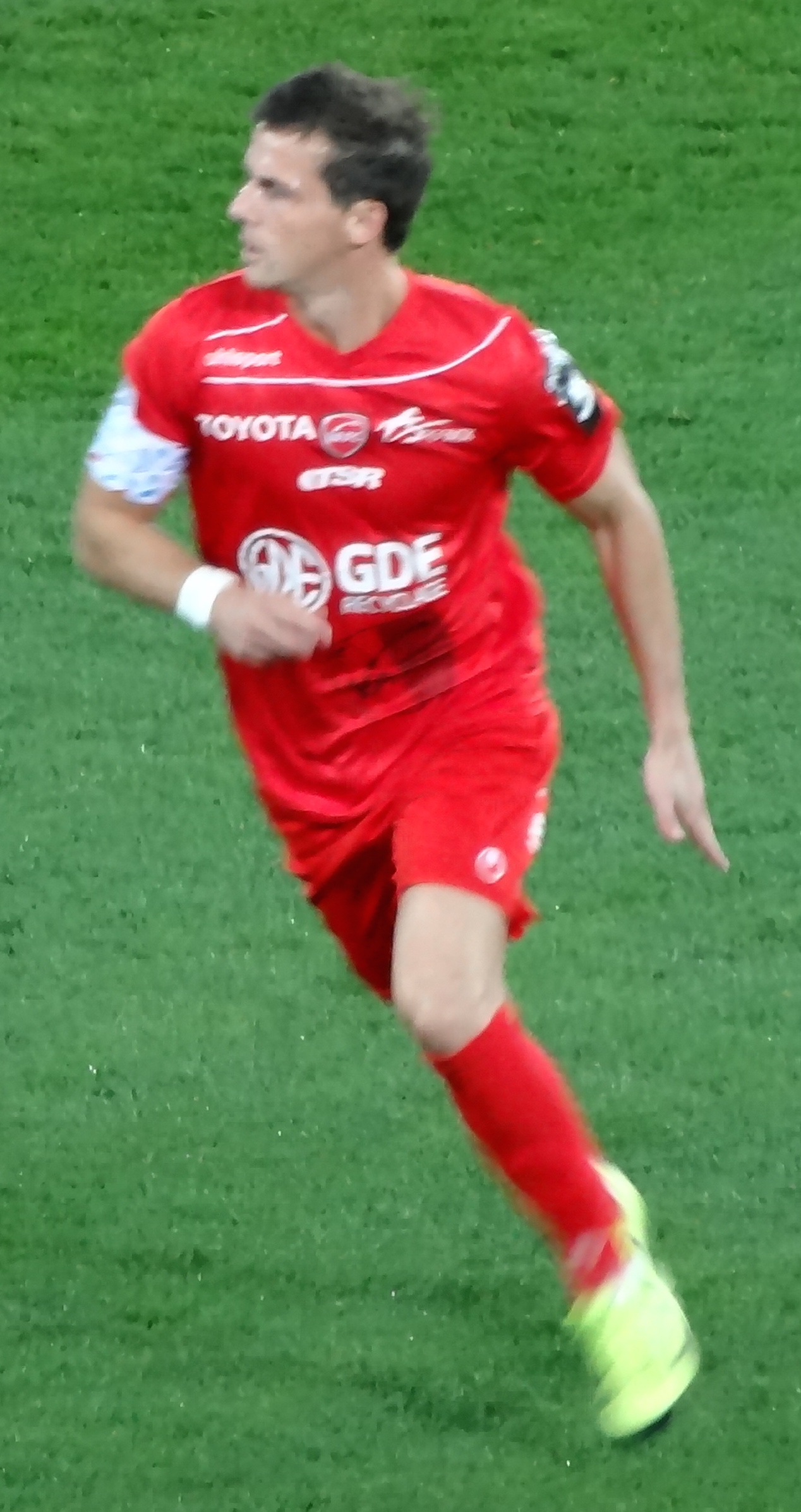 Edouard Butin